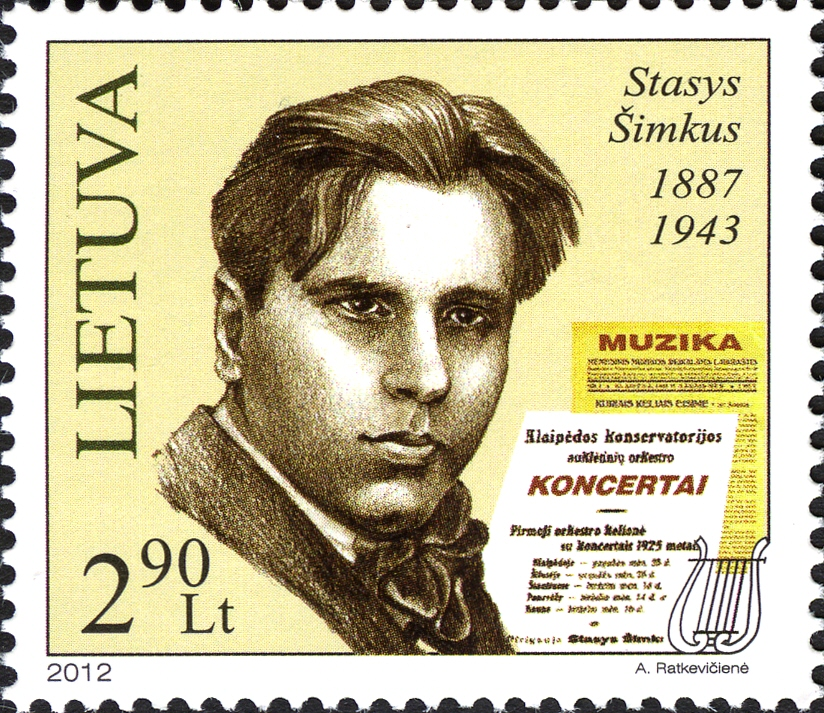 Famous People - composer, conductor and choirs organiser Stasys Simkus